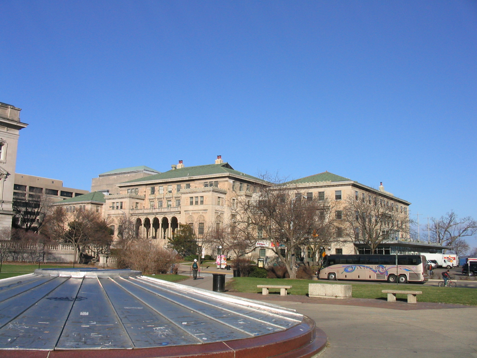 Fotos from Madison, WI taken in Dec 04. Memorial Union, 800 Langdon St. Madison, WI 53706 608-265-3000